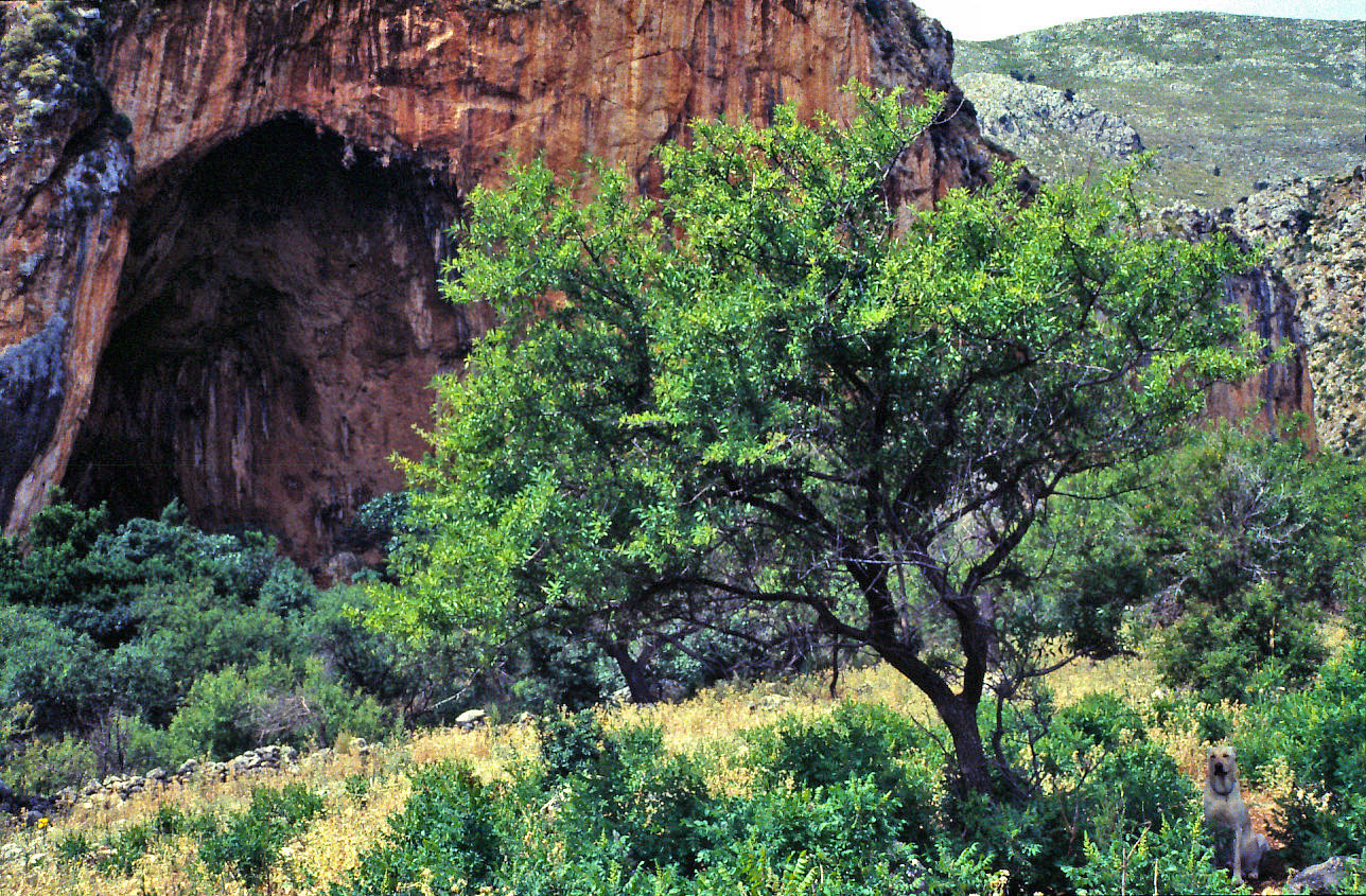 wildlife sanctuary "Zingaro", prov. Trapani, reg. Sicily, Italy: grotto of Uzzo